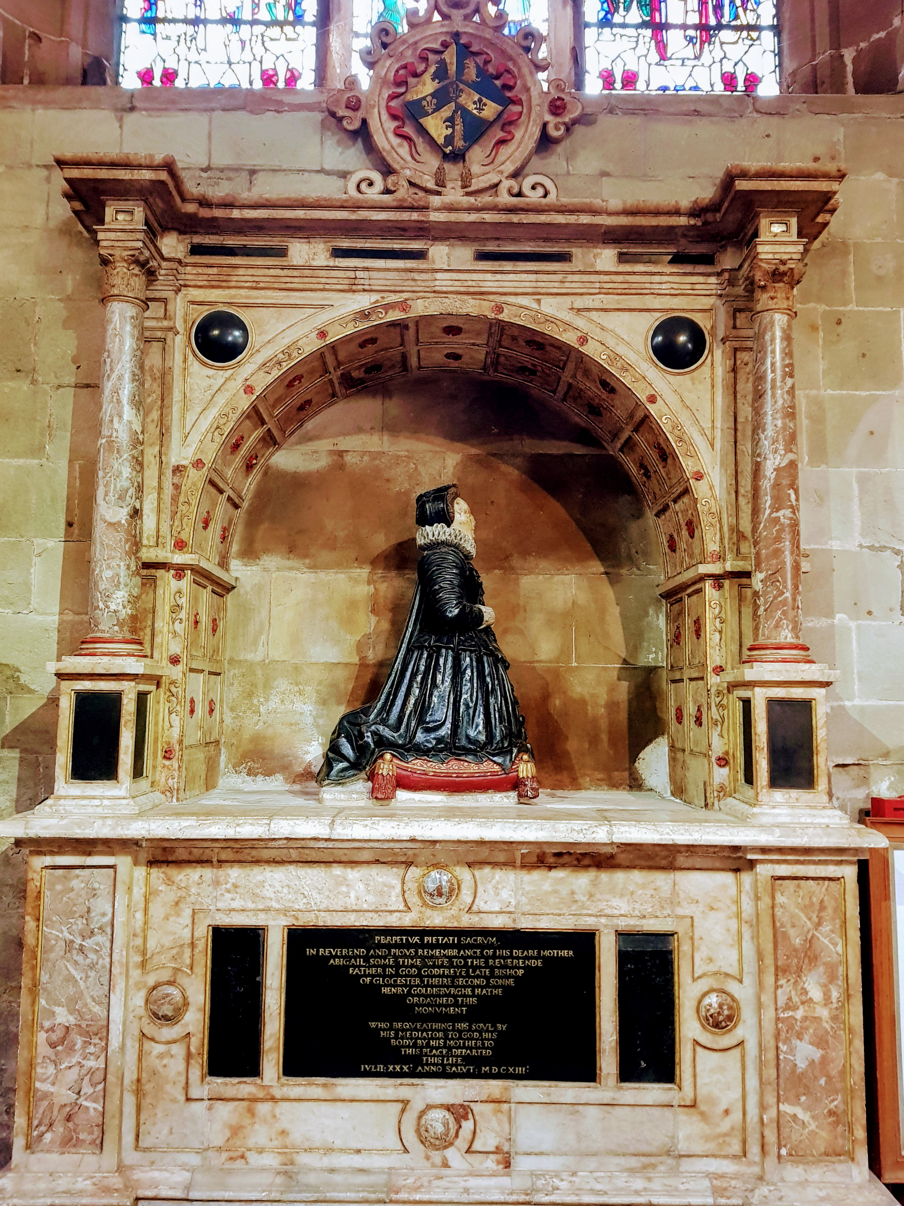 Worcester Cathedral, monument to Abigail Goldsborough, widow of Godfrey Goldsborough (1548-1604), Bishop of Gloucester from 1598-1604. Erected by his second son Henry Goldsborough (d.30 July 1613). Arms (apparently paternal arms of Abigail, as shown in a lozenge, appropriate for an heraldic heiress) Per pale or and sable, on a chevron between three griffin's heads erased three fleurs-de-lys all counterchanged.